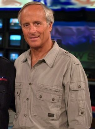 Animal expert Jack Hanna Please acknowledge "Phil Konstantin" as the creator of this photograph.